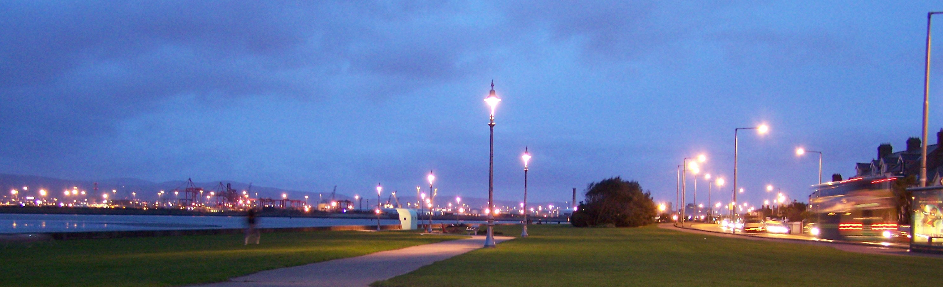 Rory Deegan